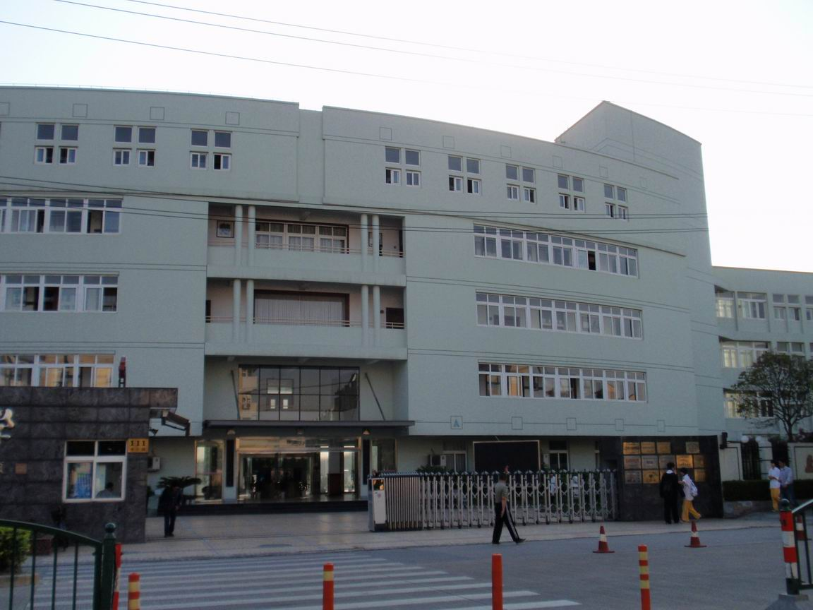 the gate of Shanghai JianPing Experimental Middle School